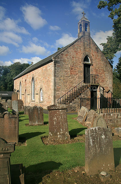 Sorn Parish Church The church was erected in 1656 and rebuilt in 1826.